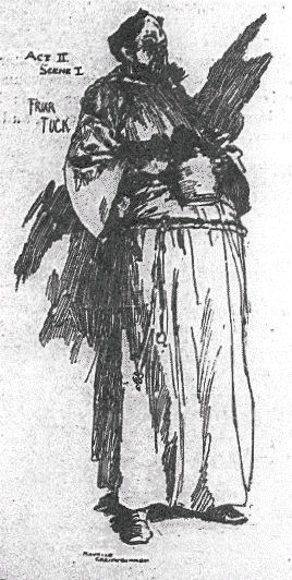 Illustration of Avon Saxon as Friar Tuck in the opera Ivanhoe (1891) by Arthur Sullivan and Julian Sturgis at the Royal English Opera House, taken from the souvenir celebrating the 100th performance.